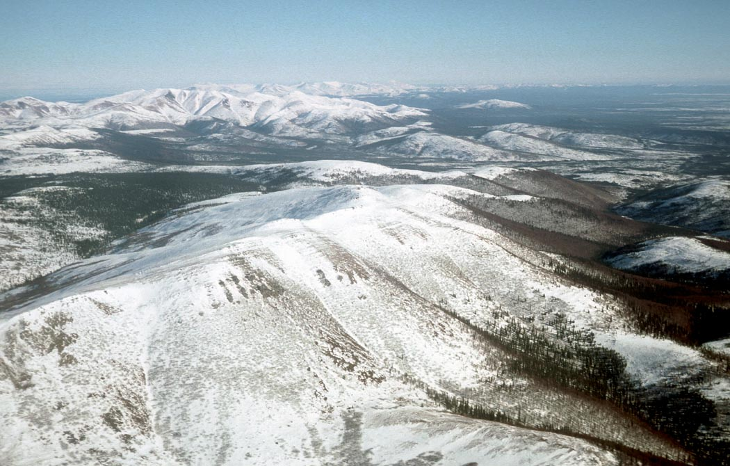 Cloudy Mountains, Innoko National Wildlife Refuge